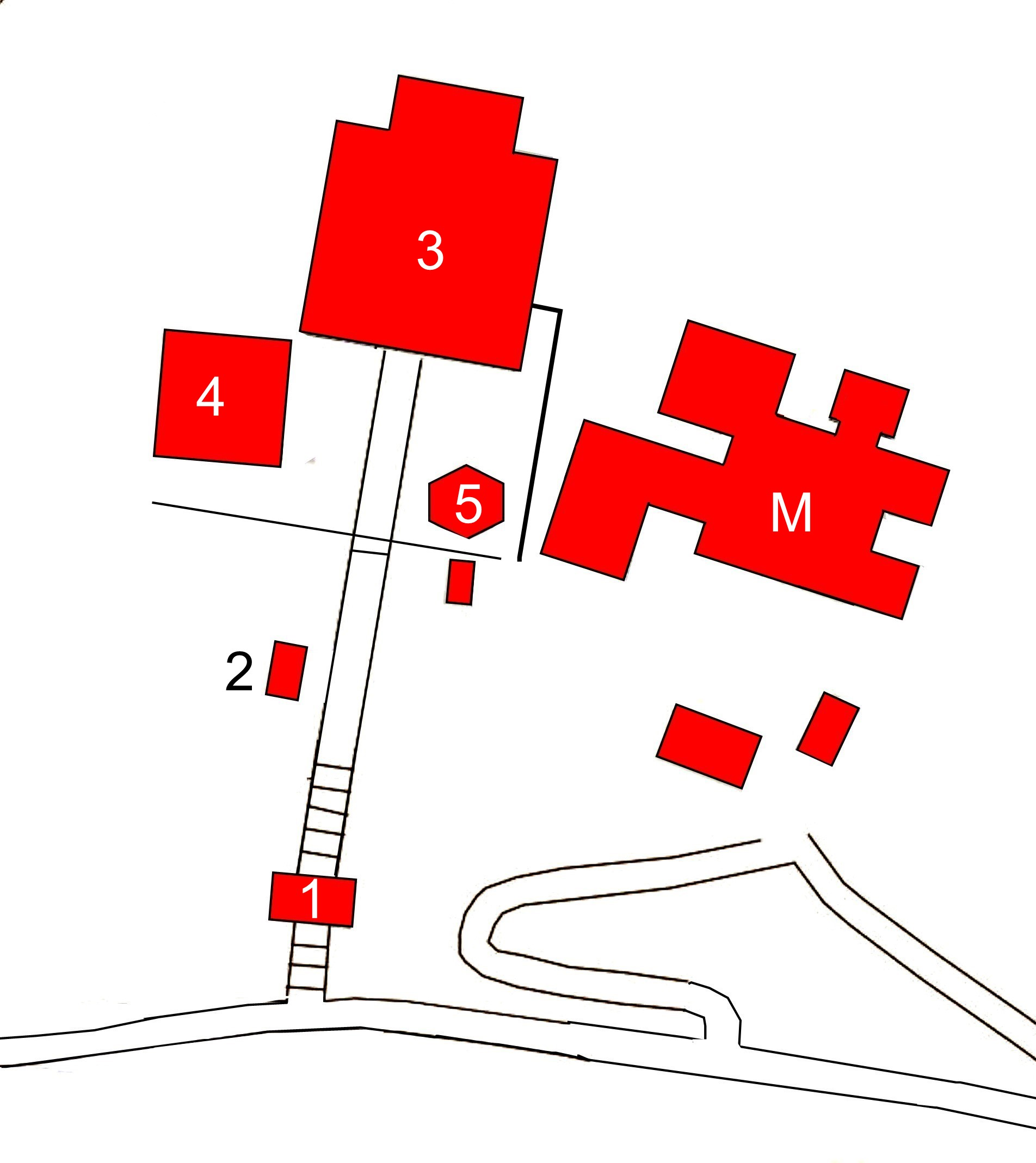 Layout of Dainichi-ji (Kônan), Prefecture Kôchi, Japan